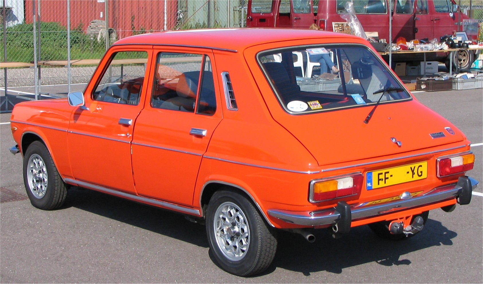 1979 Simca 1100 Special in pristine condition, Simca & Matra Sports Club meeting, 10/09/06